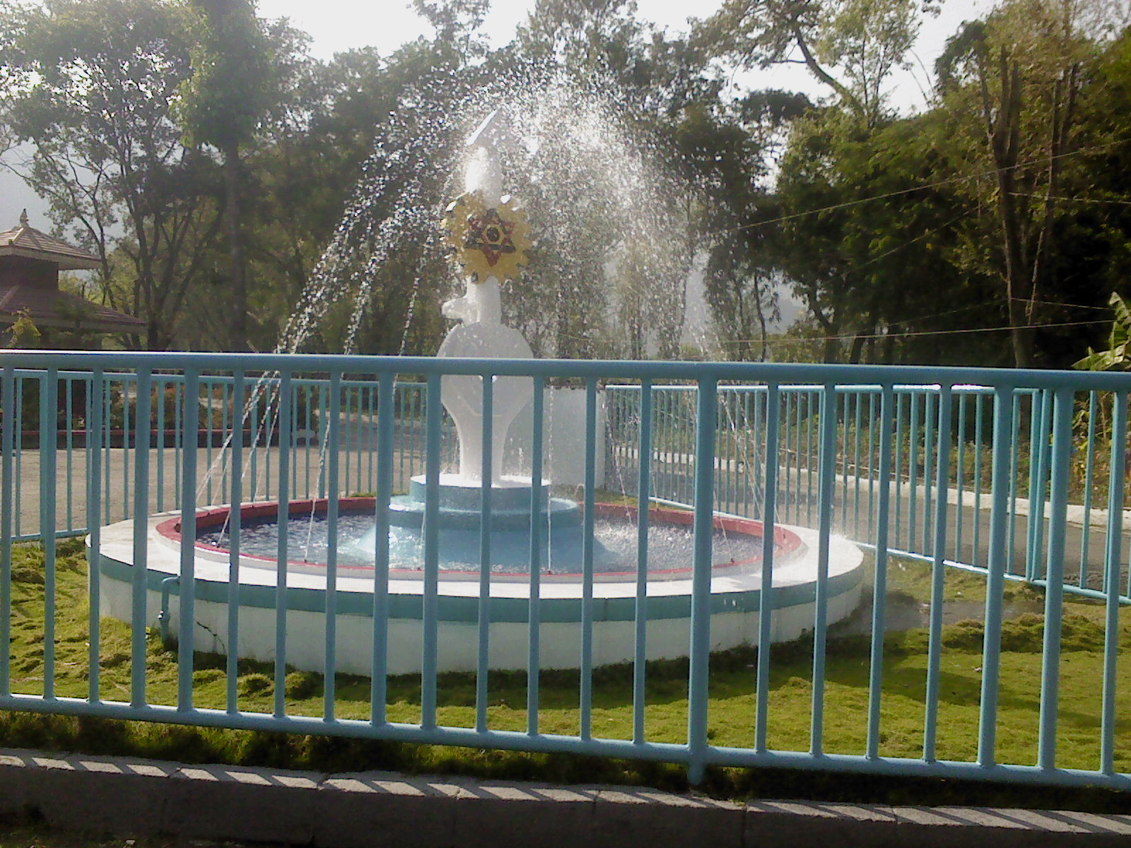 Fountain in front of Administartion building of Pashchimanchal Campus, at college entrance